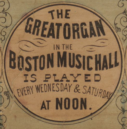 Organ concerts, Boston Music Hall. Detail of: "Nanitz' great mercantile map of Boston" (Boston: B.B. Russell, 1869)